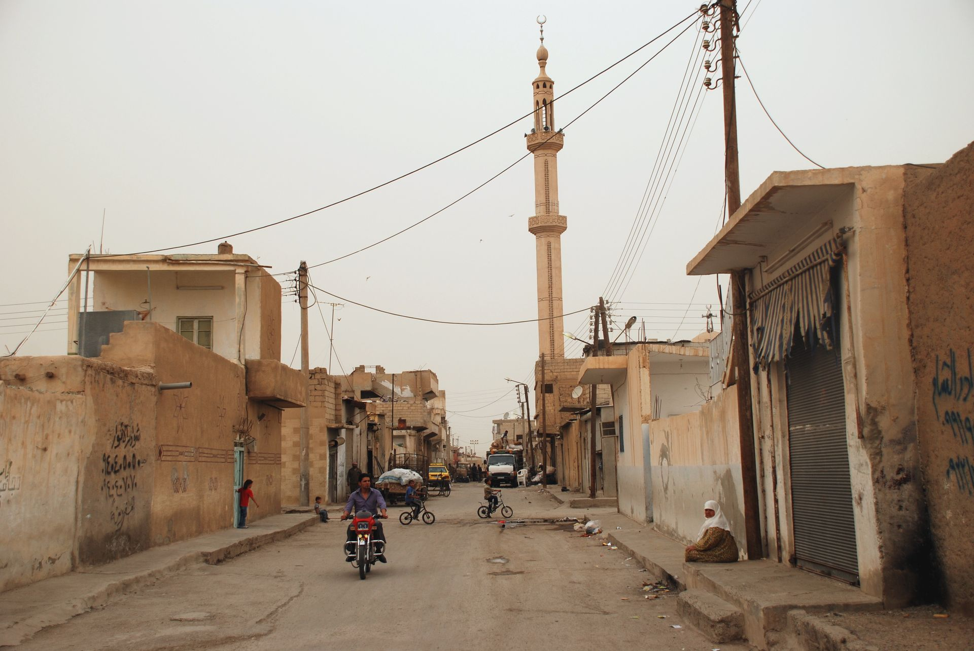 Ar-Raqqah, Syria, east part old towm